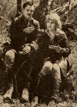 Still from the American film serial The Black Secret (1919) with Walter McGrail and Pearl White, from episode 8, on page 83 of the December 20, 1919 Exhibitors Herald.